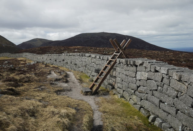 The Mourne Wall, Slievenaglogh The Mourne Wall south west of the summit of Slievenaglogh.